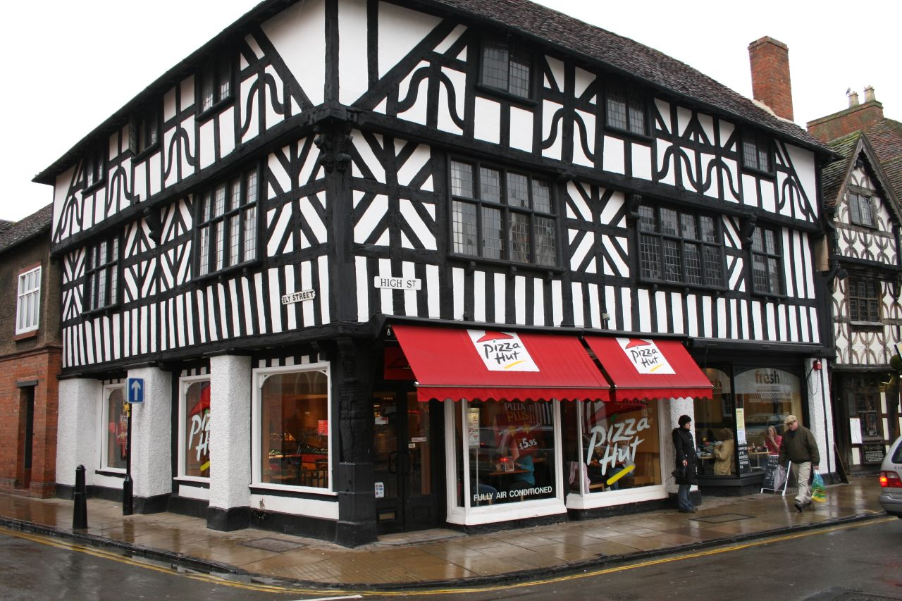 A pizza hut. The building is in Stratford-upon-Avon, Warwickshire, England. It is on the corner of Ely Street and High Street